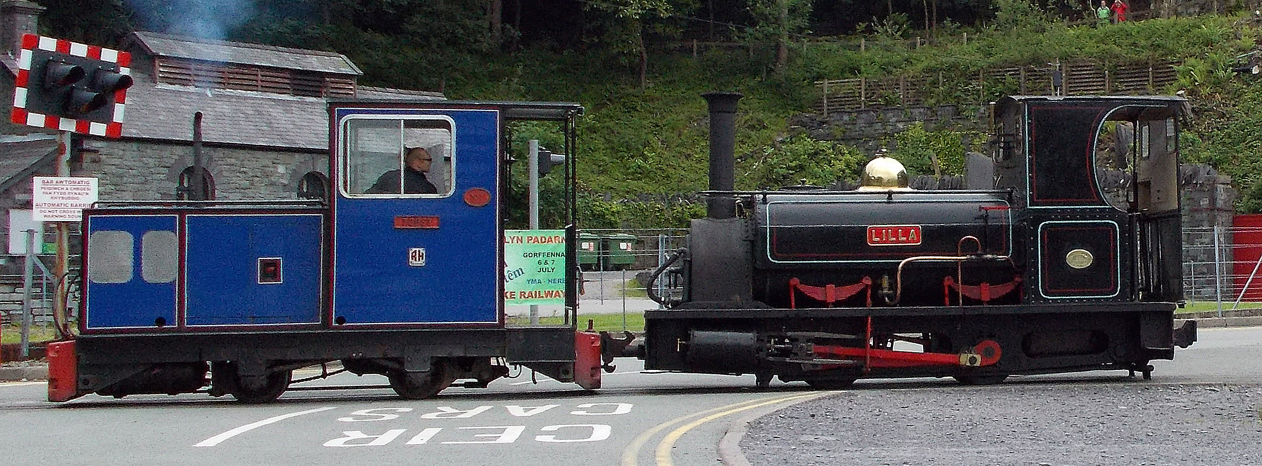 Hunslet steam locomotive 554 of 1891 "Lilla" is shunted by "Topsy" at the Llanberis Lake Railway